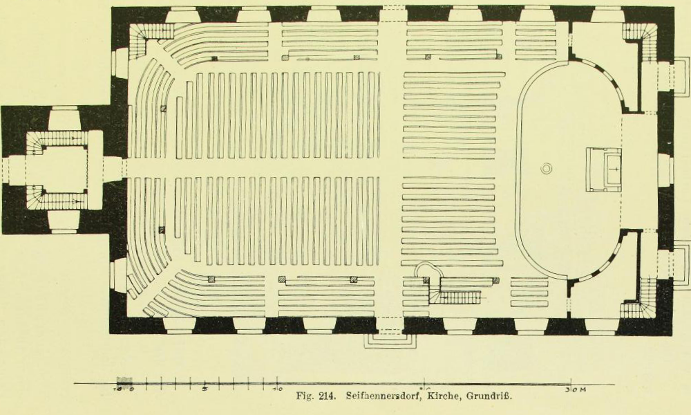 Groundplan of the church in Seifhennersdorf